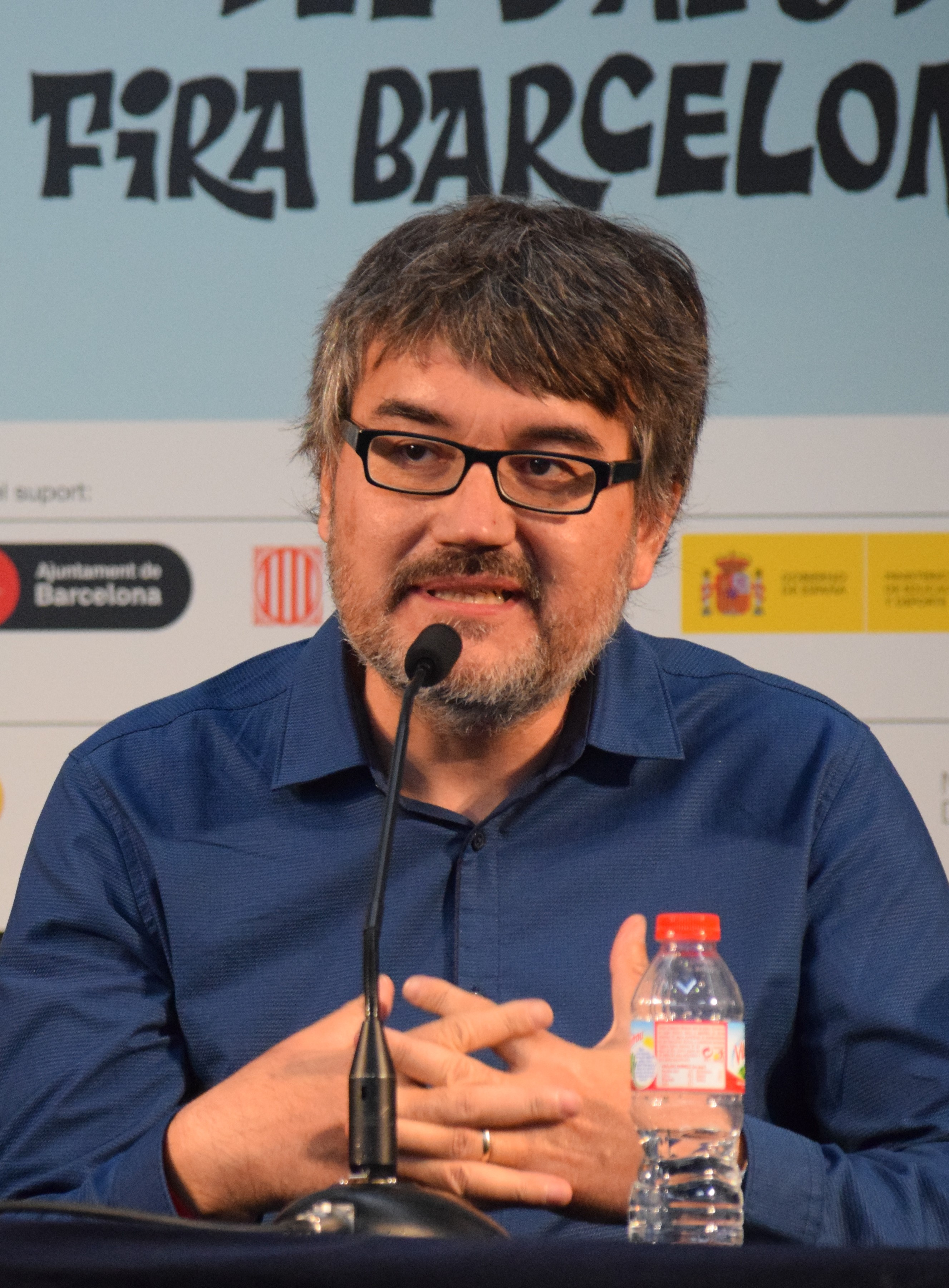 The scriptwriter Santiago García, author of Las meninas, during the presentation of all the comics nominated to the prize to the best national work, at the Barcelona Internacional Comic Convention. Friday 6 may 2016.